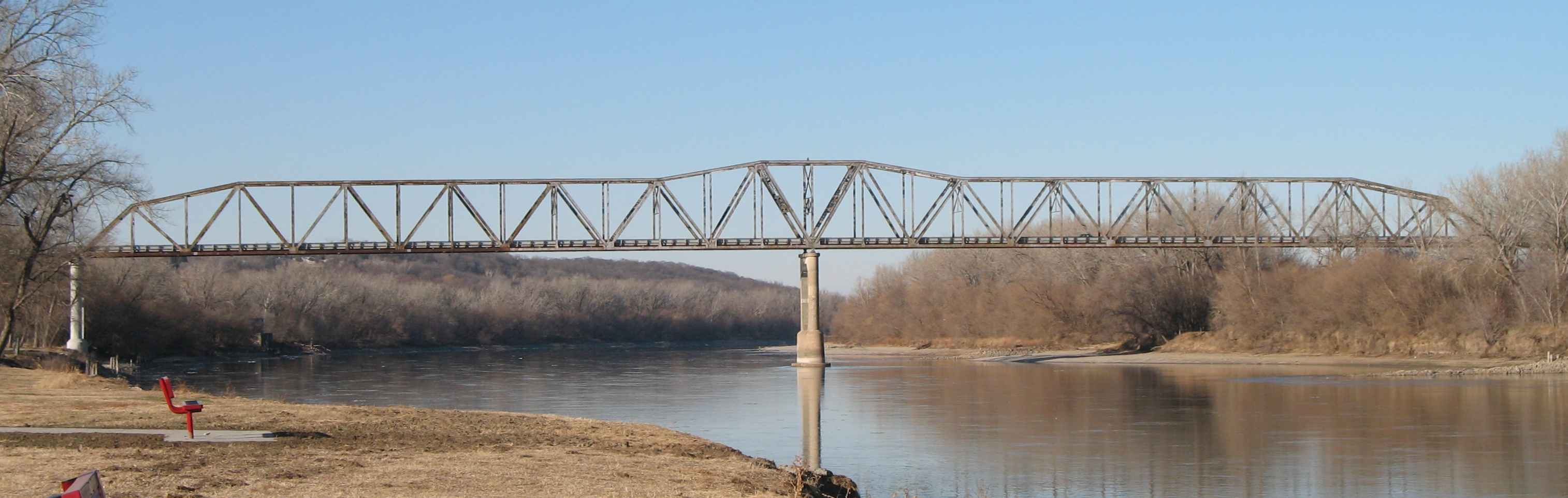 Bellevue Bridge from the south on the Nebraska side.